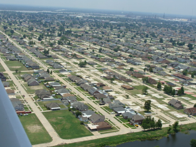 Air view of a residential section of Chalmette, Louisiana, 2009. All this area flooded disasterously in the levee failure disaster during Hurricane Katrina in 2005. Note the scattering of empty foundations and lots; many houses were unsalvagable and have been demolished.